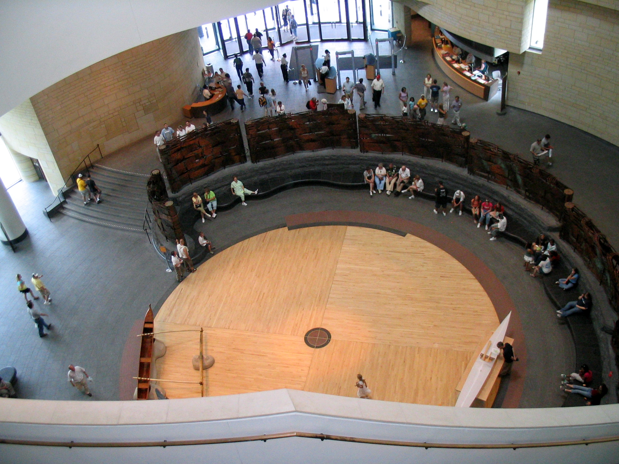 Interior of the National Museum of the American Indian, from the second floor looking down into the first floor.